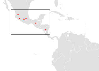 Distribution of Molossus aztecus